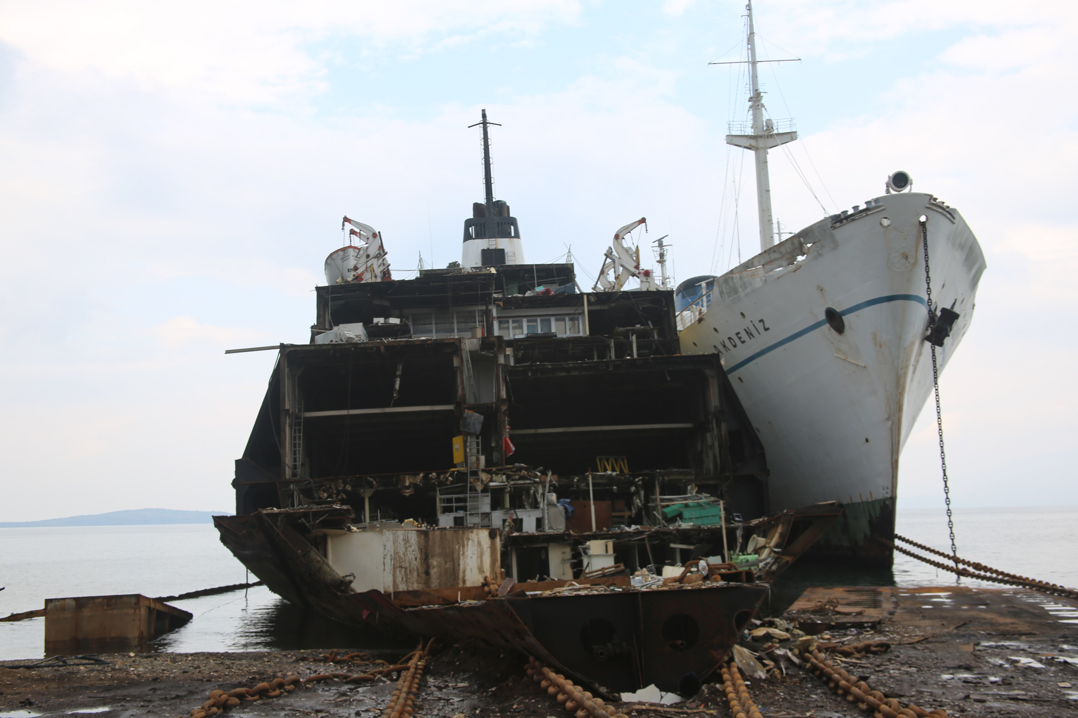 The Boughaz and the Akdeniz during their scrapping at Aliağa on Septembre 23, 2005.